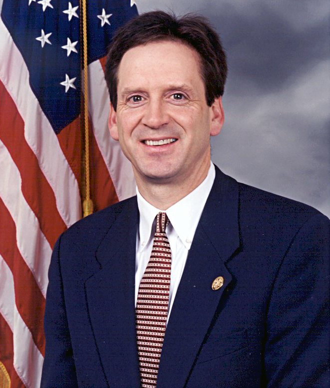 Wisconsin politician Mark Andrew Green.